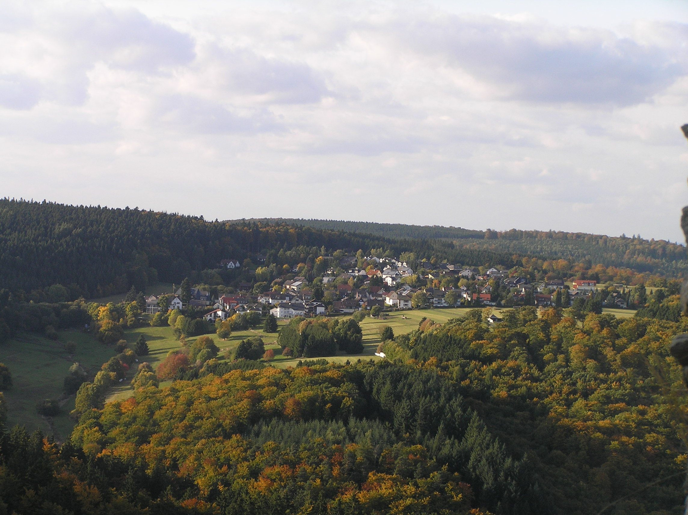 View on Seelenberg, Hesse, Germany - from Oberreifenberg Castle tower